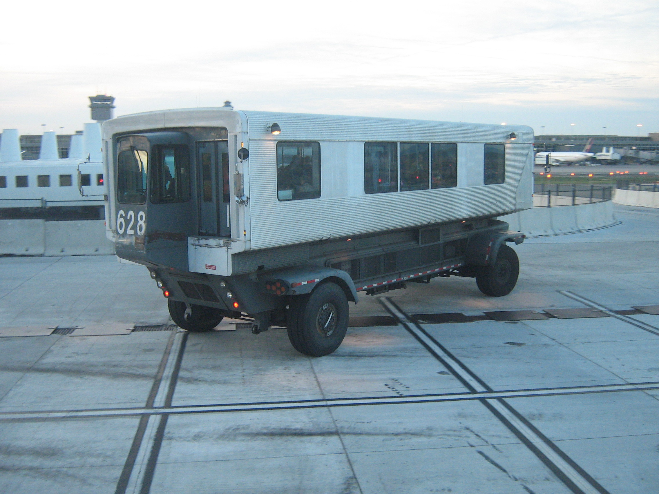 Transportation at Washington Dulles Airport. These were used to transport people between terminals at Washington Dulles airport. They can drive from either end. Soon to be replaced by a train system.